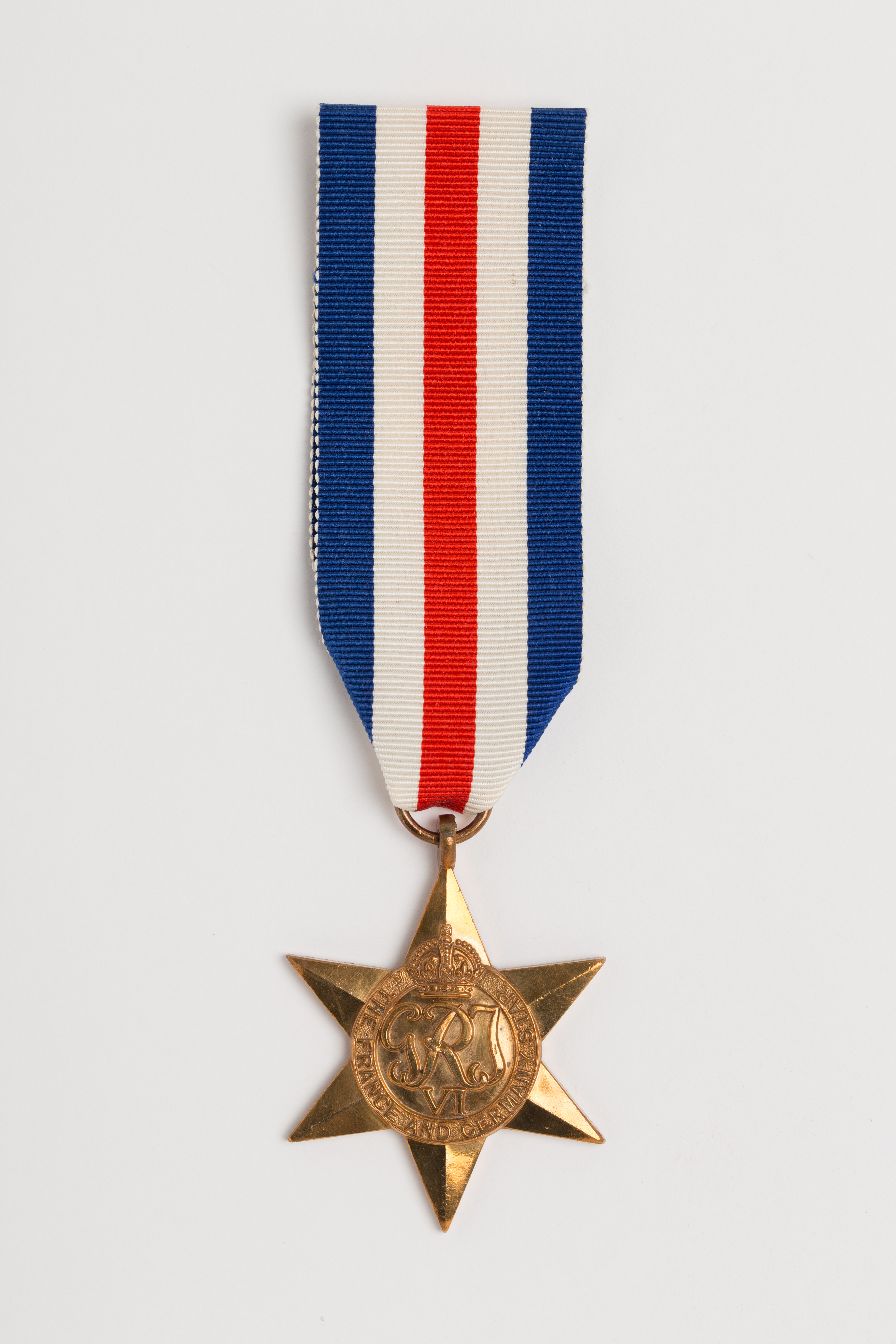 France and Germany Star, WW2 six pointed star with royal cypher GRI with VI below, surmounted by an imperial crown surrounded by a circlet bearing the title of the star- THE FRANCE AND GERMANY STAR; blue, white, red, white, blue ribbon; ring suspension clasp